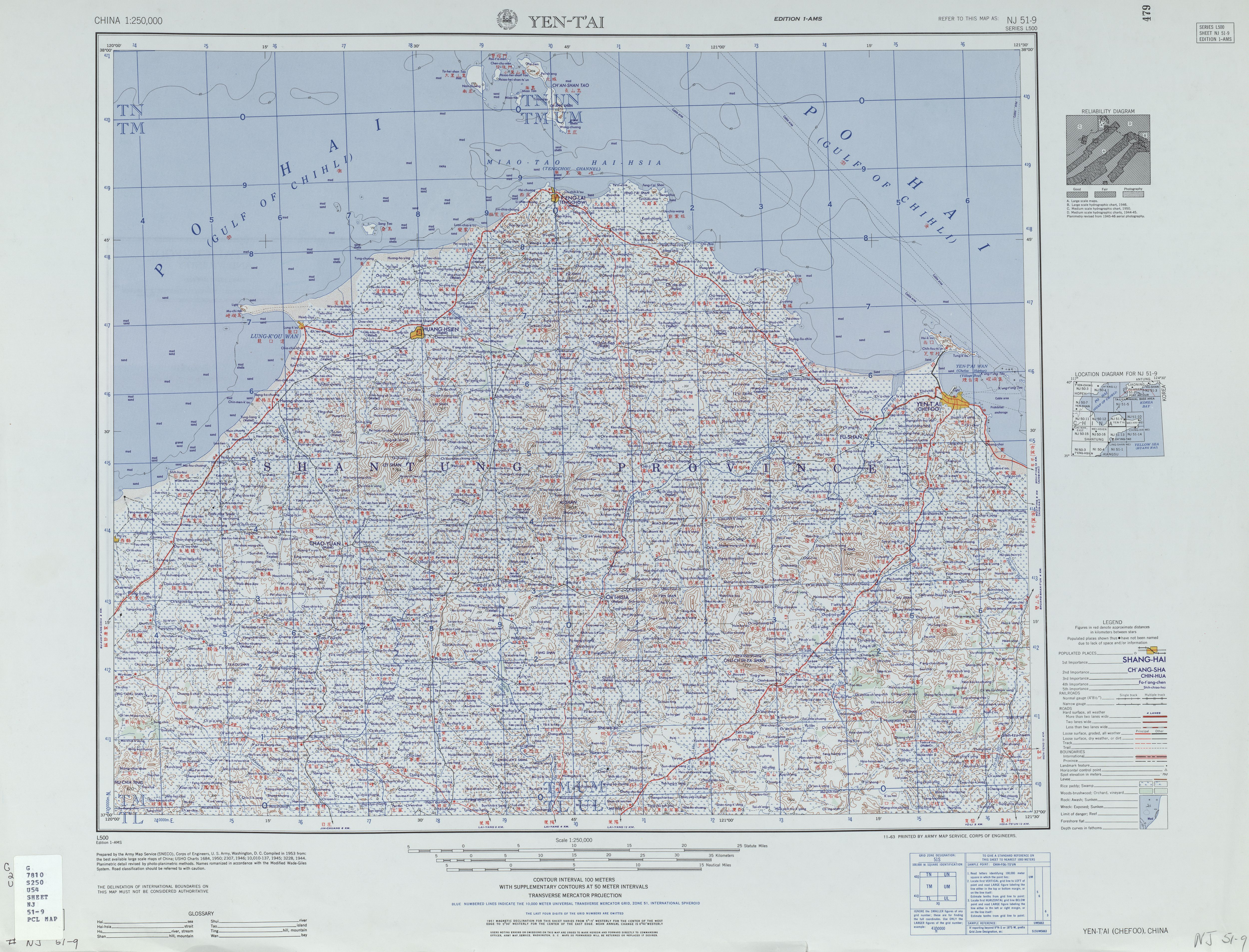 Map of Yantai (Yen-t'ai, Chefoo) area, Shandong